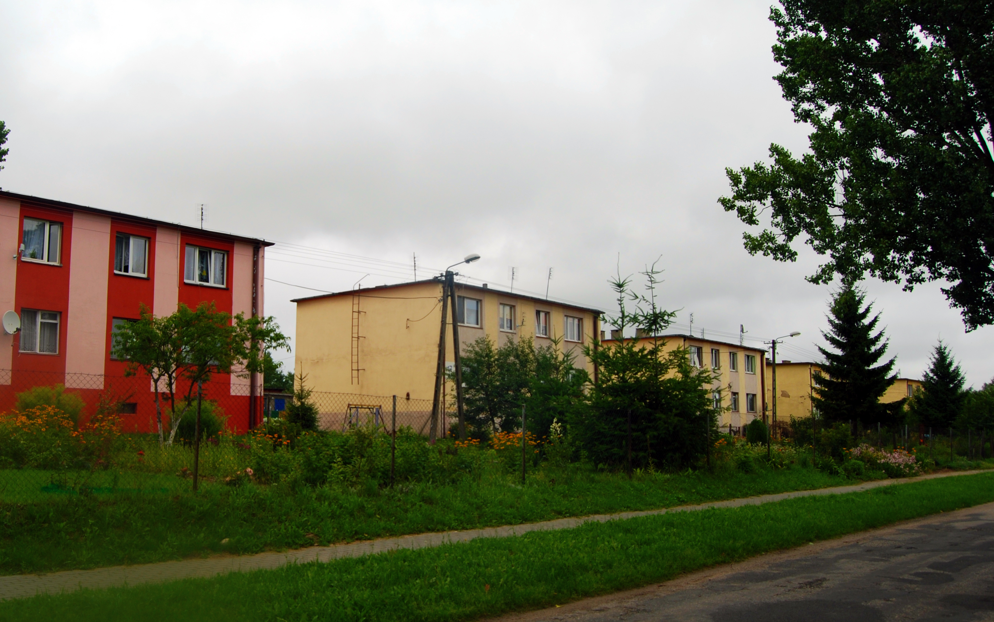 Rudki